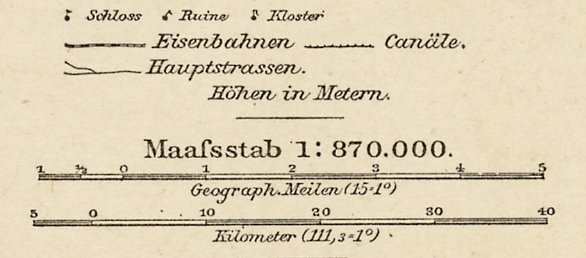 Austrian Silesia (original map scanned with 200px per inch). The scale has been placed in the cut by the uploader.